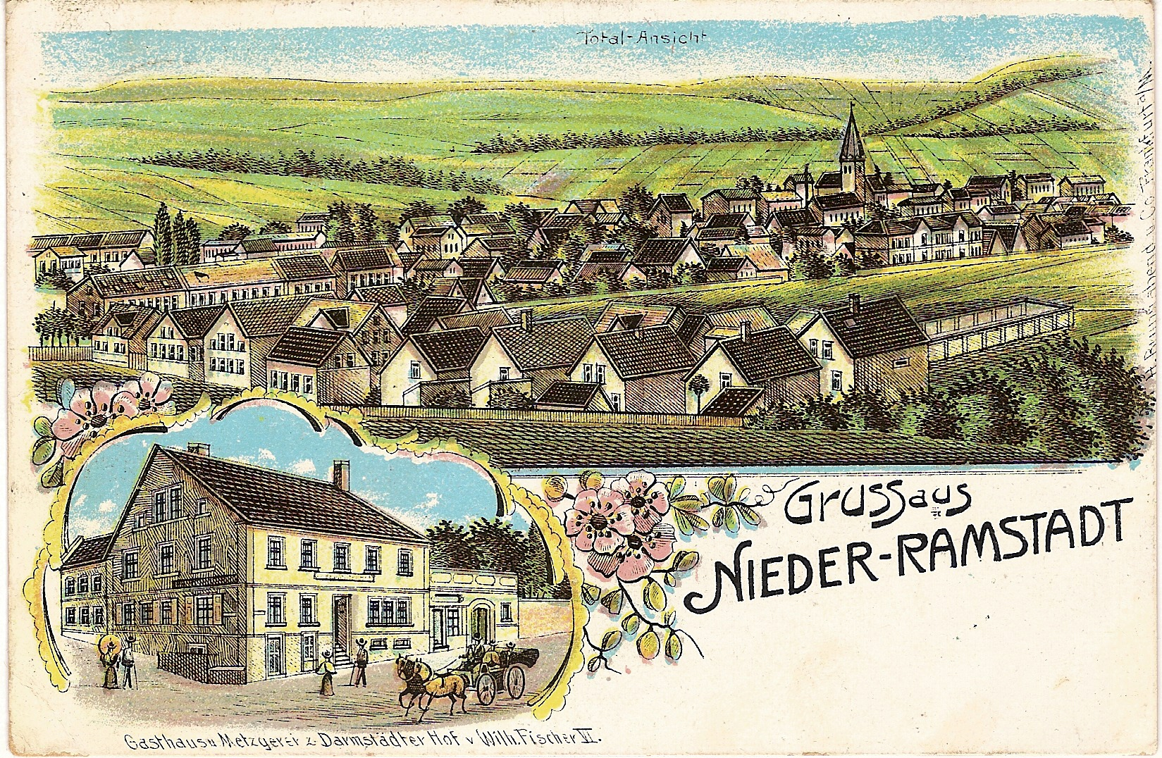 View of Nieder-Ramstadt (Hessen/Germany). Old picture postcard